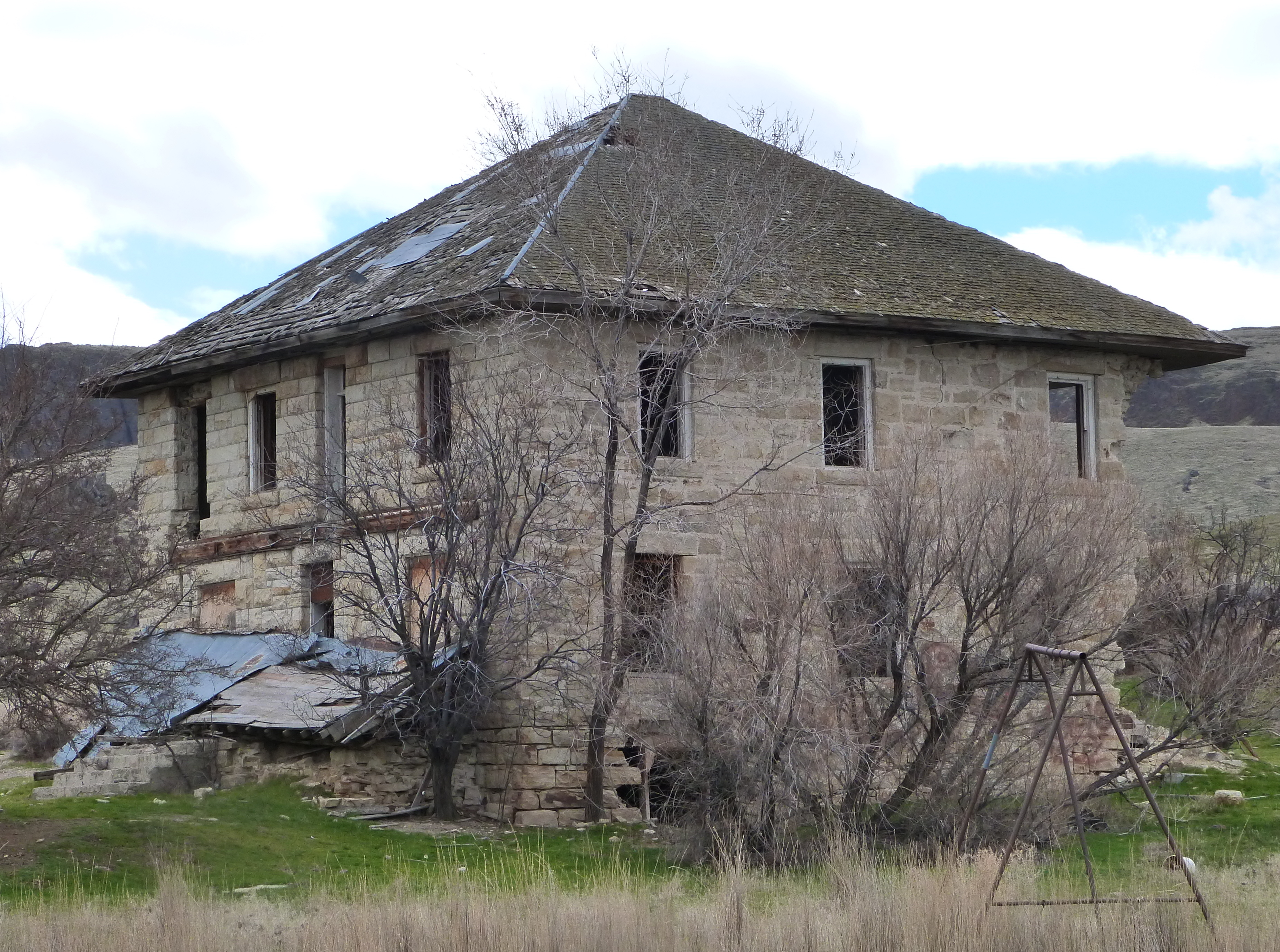 The historic Poison Creek Stage Station (built 1913), located at 9285 Poison Creek Grade Road near Marsing and Homedale, Idaho, United States, is listed on the US National Register of Historic Places.